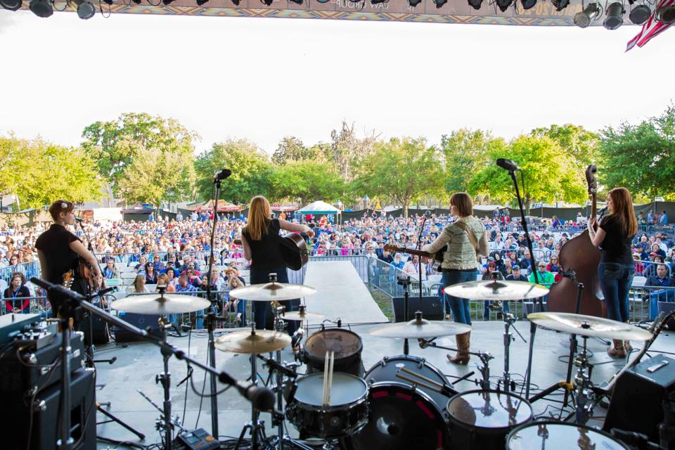 The Redhead Express performing onstage before a crowd at the Chasco Fiesta event in Florida, in 2015.